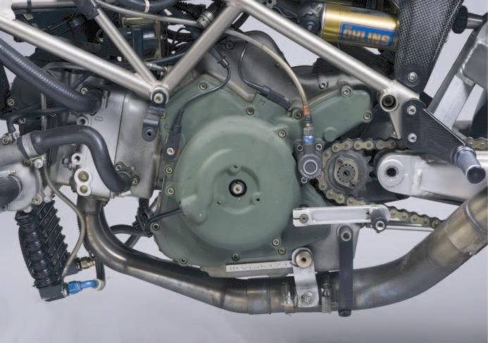 Supermono engine